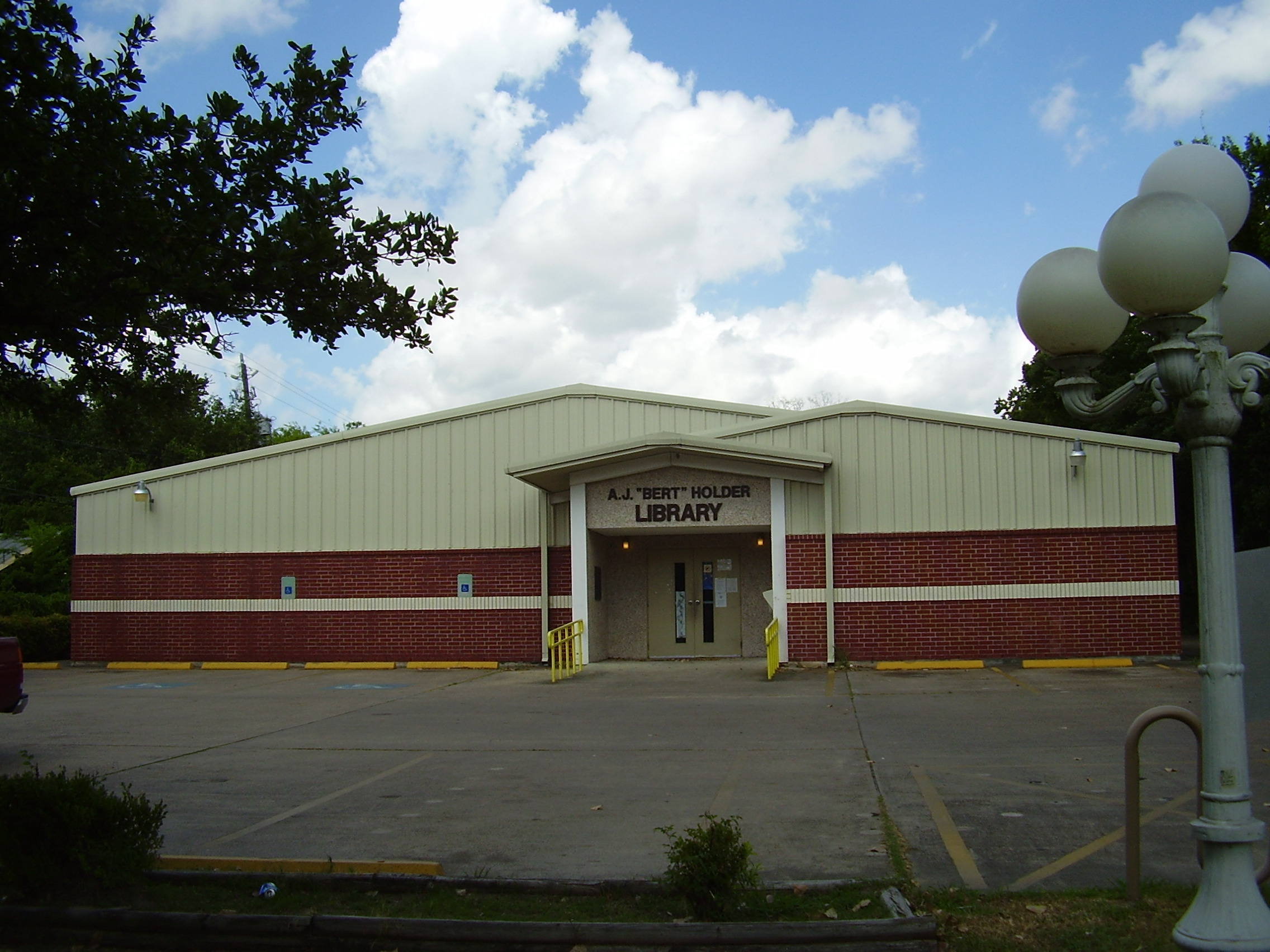 A. J. "Bert" Holder Library in Jacinto City, Texas, United States